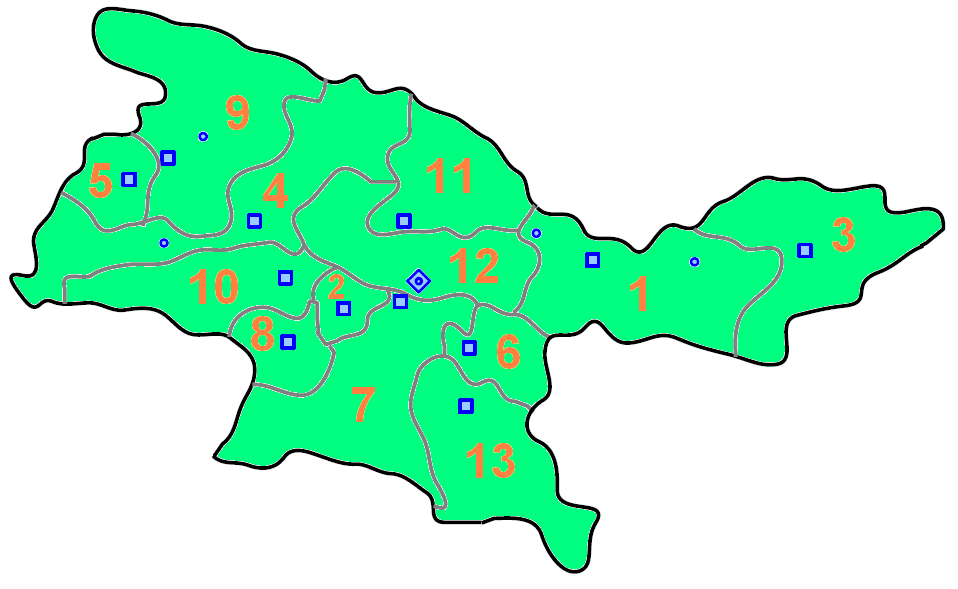 13 counties of the Tehran Province in Iran